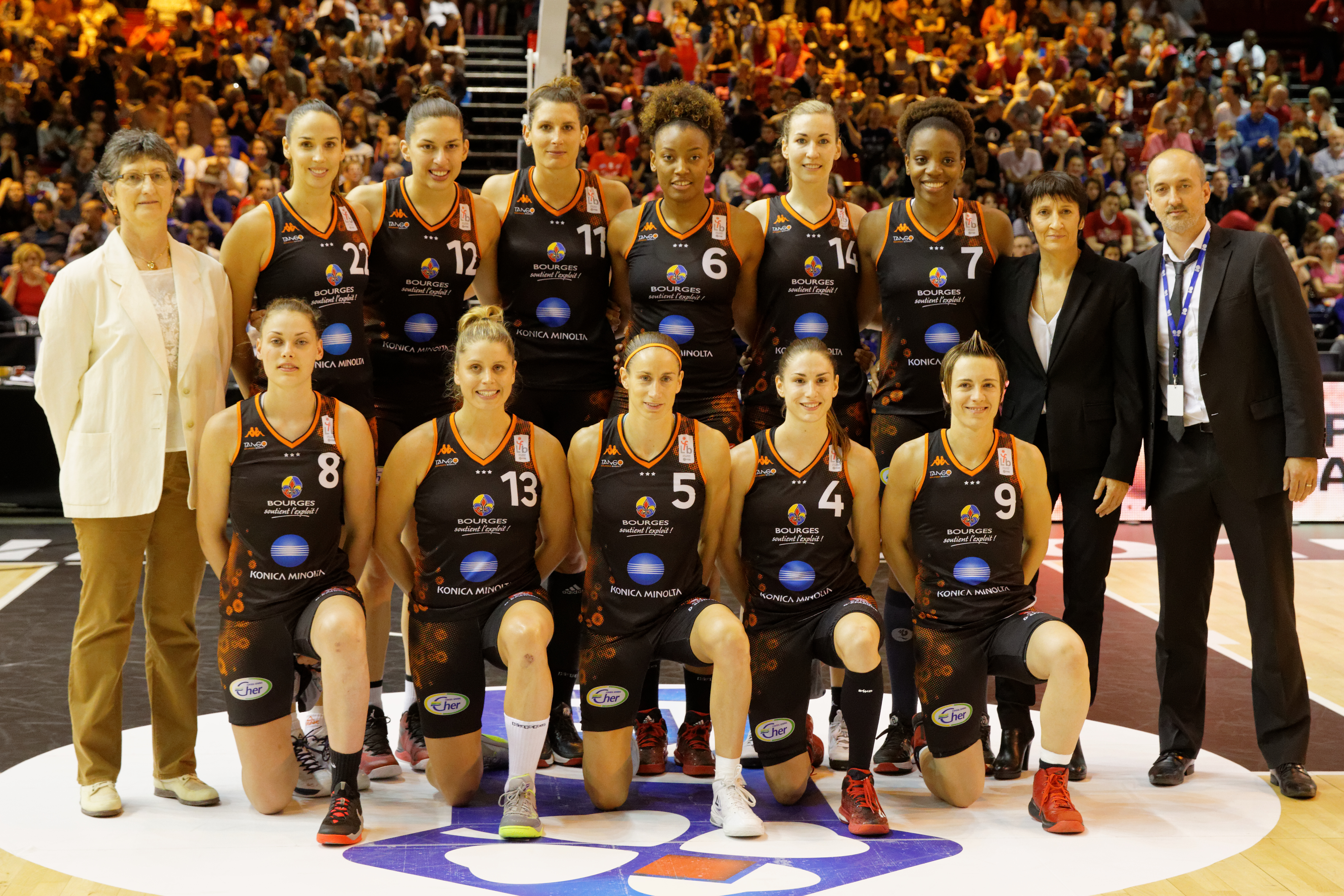 Final of the French Basketball Cup, Lattes-Montpellier vs Bourges, 2nd May 2015.